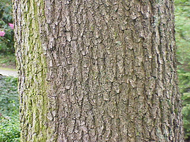 Species: Quercus frainetto Family: Fagaceae Image No. 2